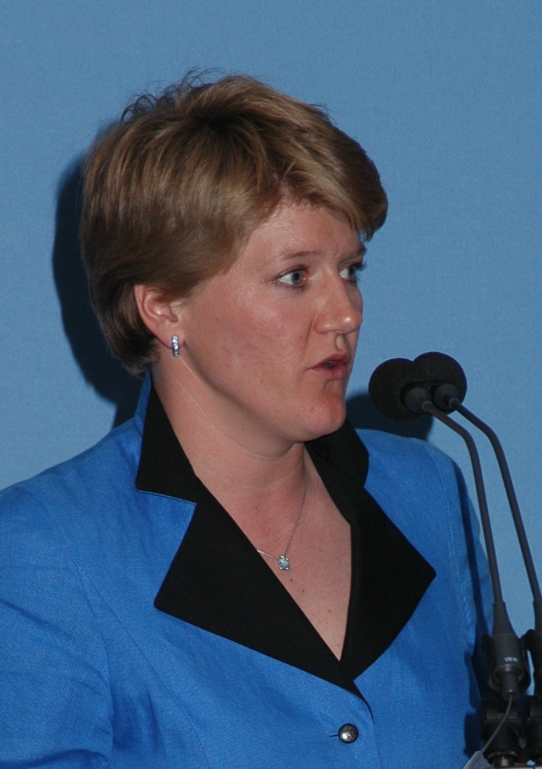 Clare Balding in 2005